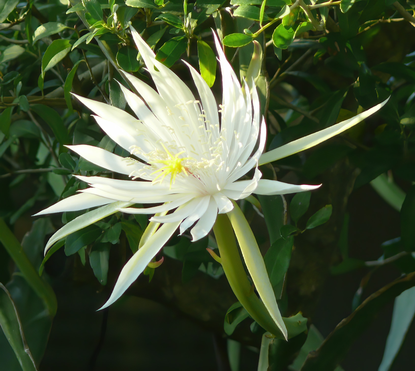 cactus flower -- Epiphyllum hookeri